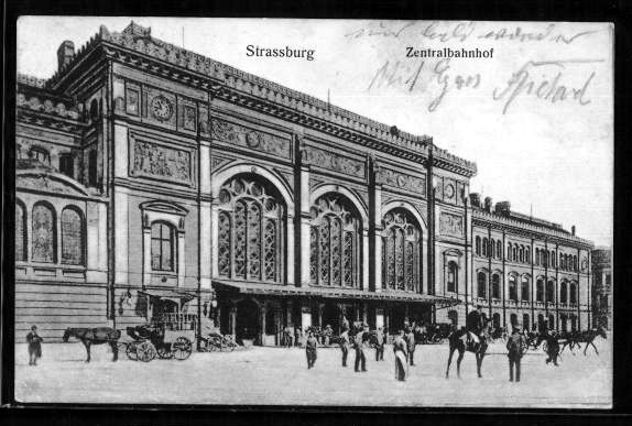 Strasbourg train station, postcard after 1900, postmarked in 1907